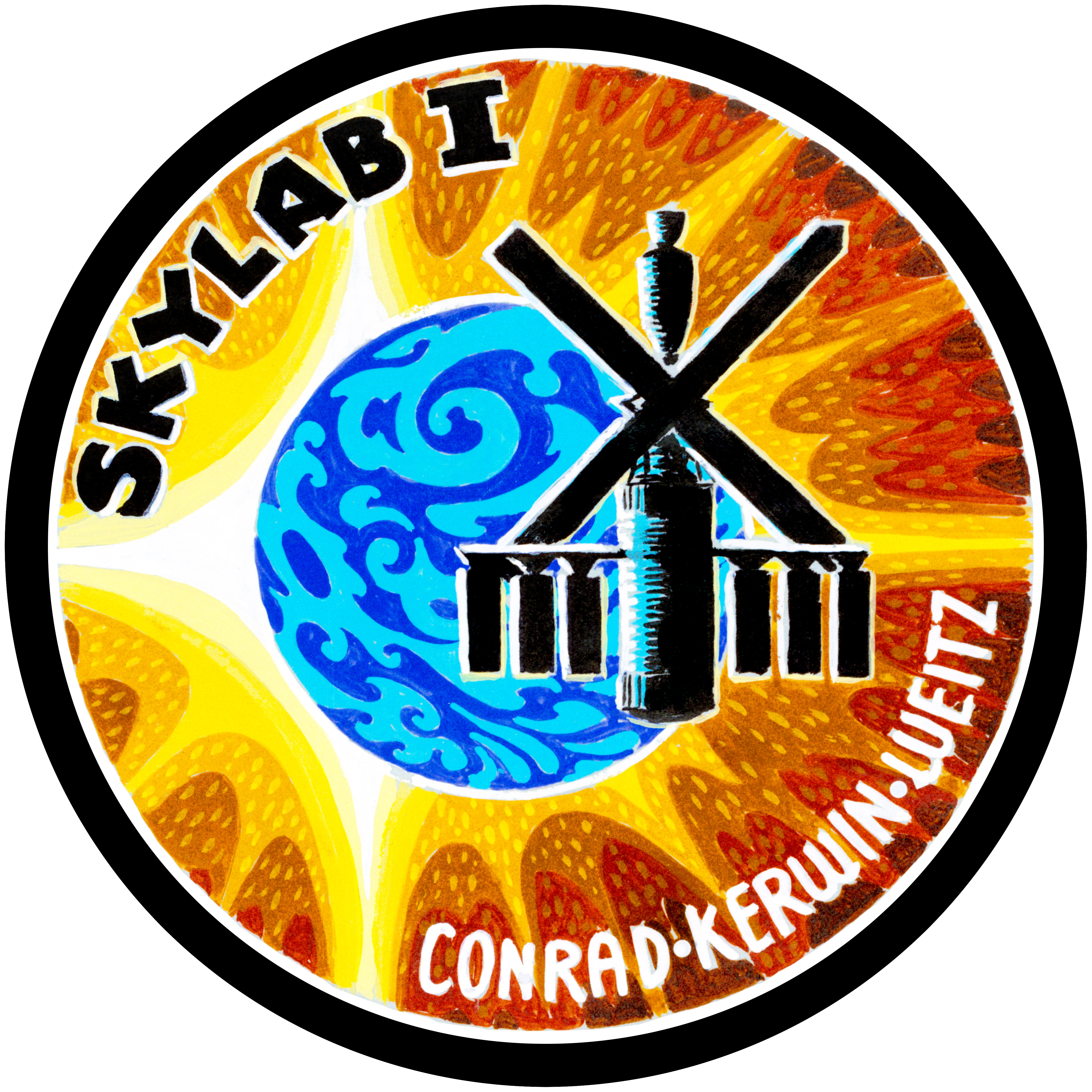 This is the emblem for the first manned Skylab mission. It will be a mission of up to 28 days. Skylab is an experimental space station consisting of a 100-ton laboratory complex in which medical, scientific and technological experiments will be performed in Earth orbit. The prime crew of this mission will be astronaut Charles Conrad Jr., commander; scientist-astronaut Joseph P. Kerwin, science pilot; and astronaut Paul J. Weits, pilot. The patch, designed by artist Kelly Freas, shows the Skylab silhouetted against the Earth's globe, which in turn is eclipsing the sun--showing the brilliant signet-ring pattern of the instant before the total eclipse.